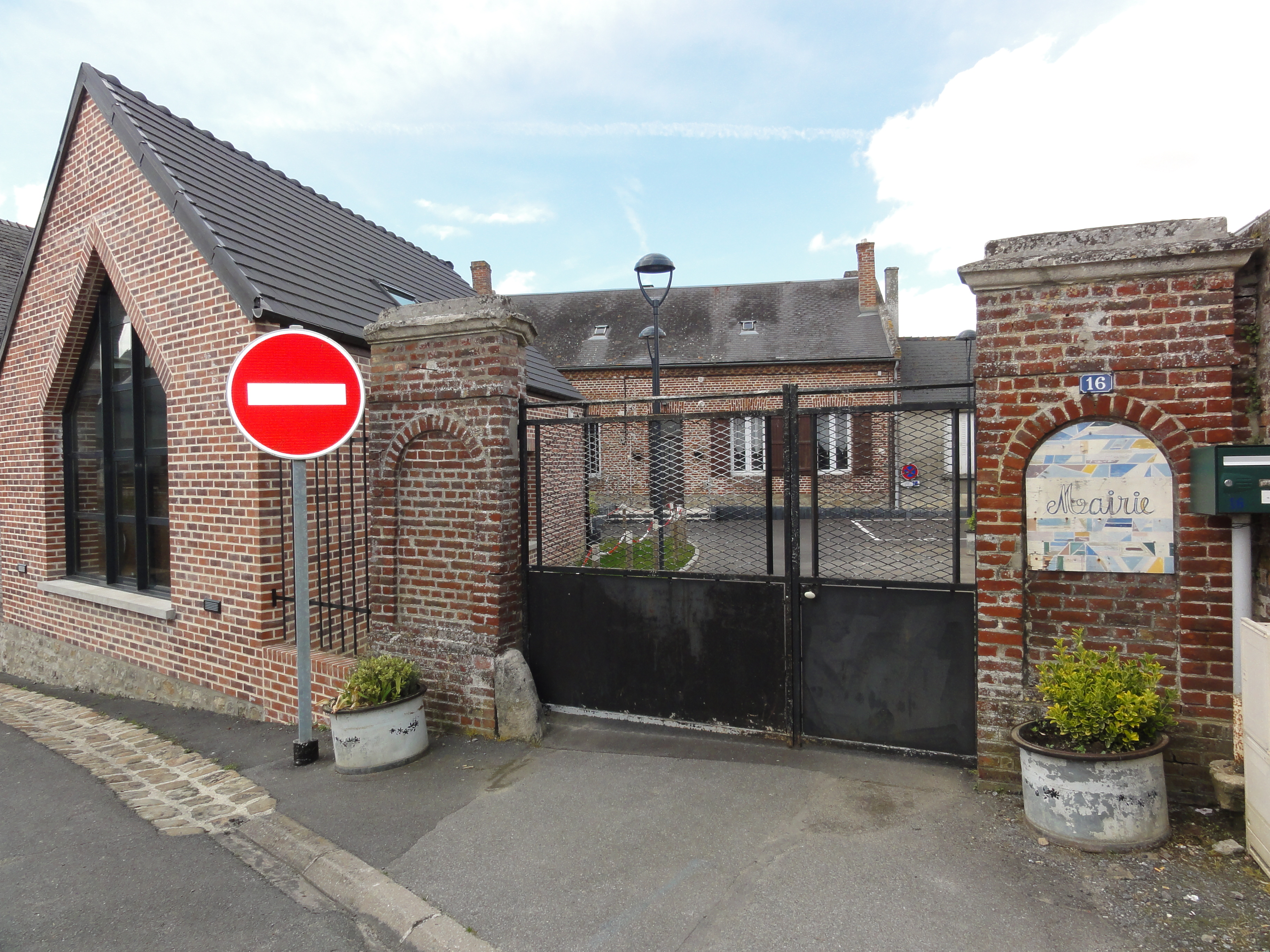 Montigny-sur-Crécy (Aisne) mairie - école